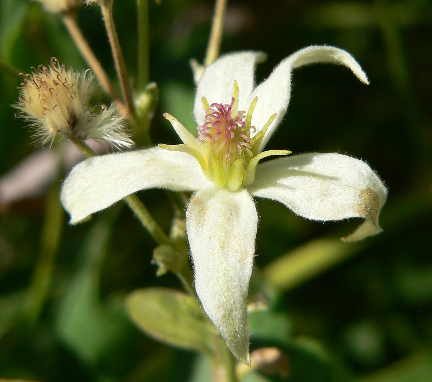 Clematis ligusticifolia near Ash Creek Spring, Calico Basin, Spring Mountains, southern Nevada (elev. about 1150 m)